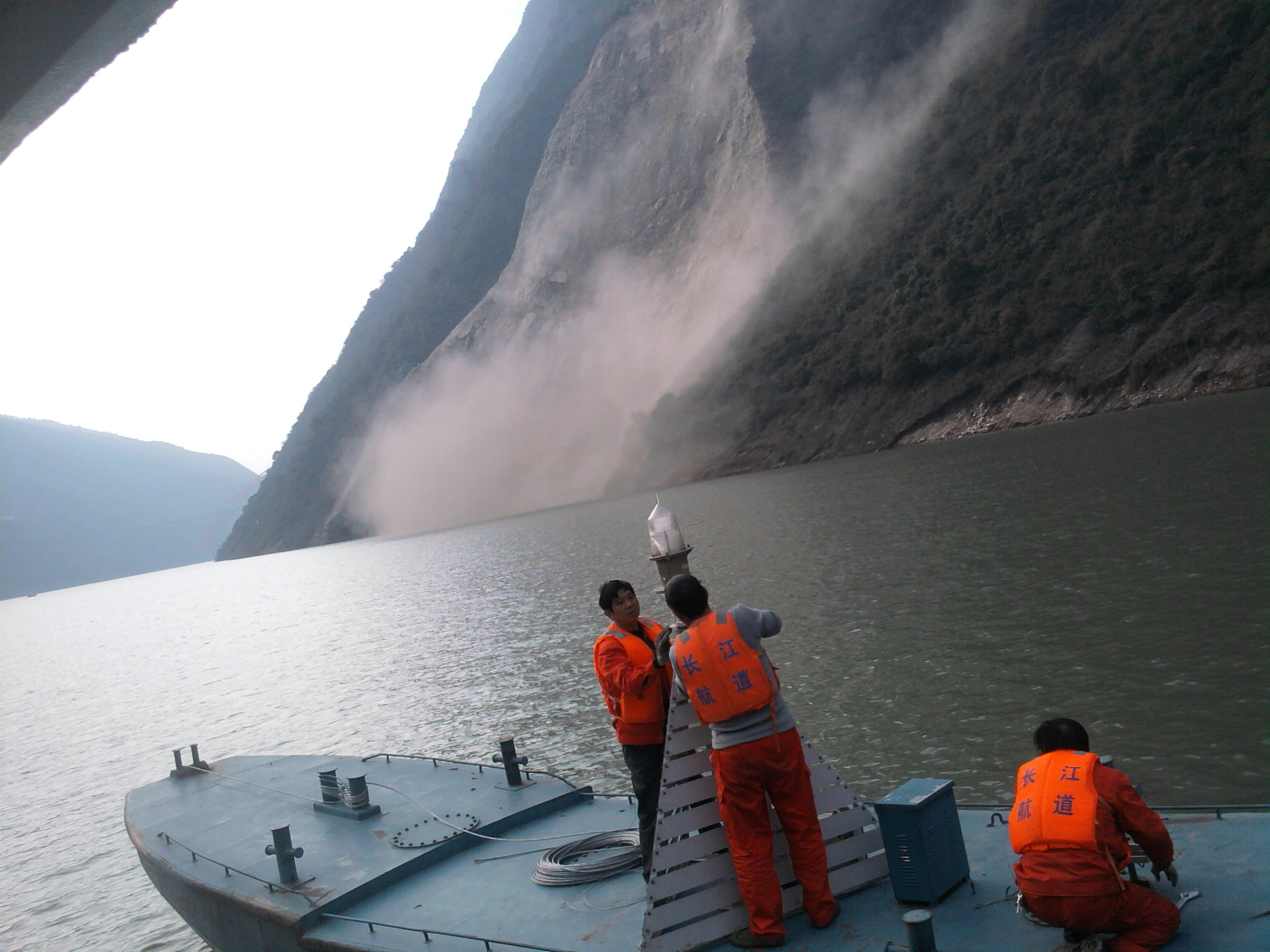 Wu Gorge - second canyon of the Three Gorges of the Chang Jiang (Yangtze River). With submersion from the rising Three Gorges Reservoir in Wushan-Renjiazui coast, Chongqing .